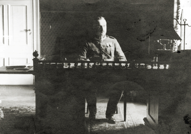 General Kazimierz Sosnkowski - commander of 7th Military District, behind his desk